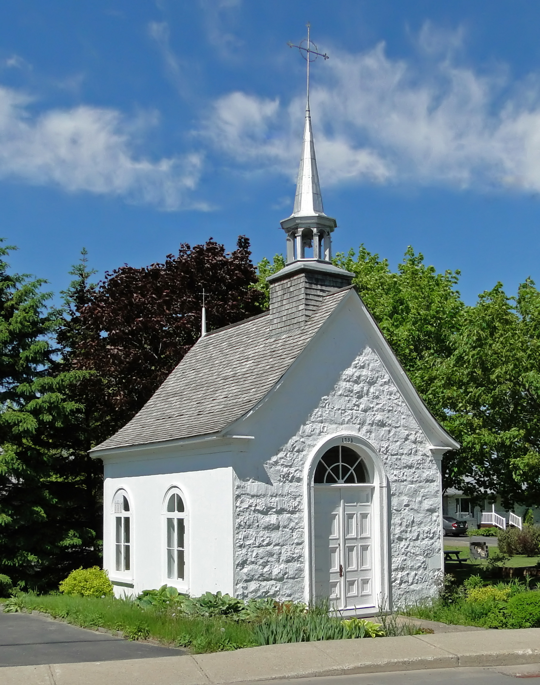 Virgin Mary Processional Chapel, Beaumont, province of Quebec, Canada